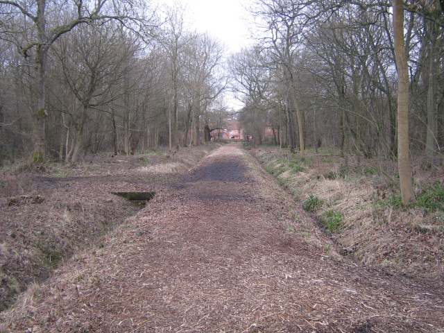 Tattenhoe comes into view Houses at Stolford Rise come into view at the end of the path.